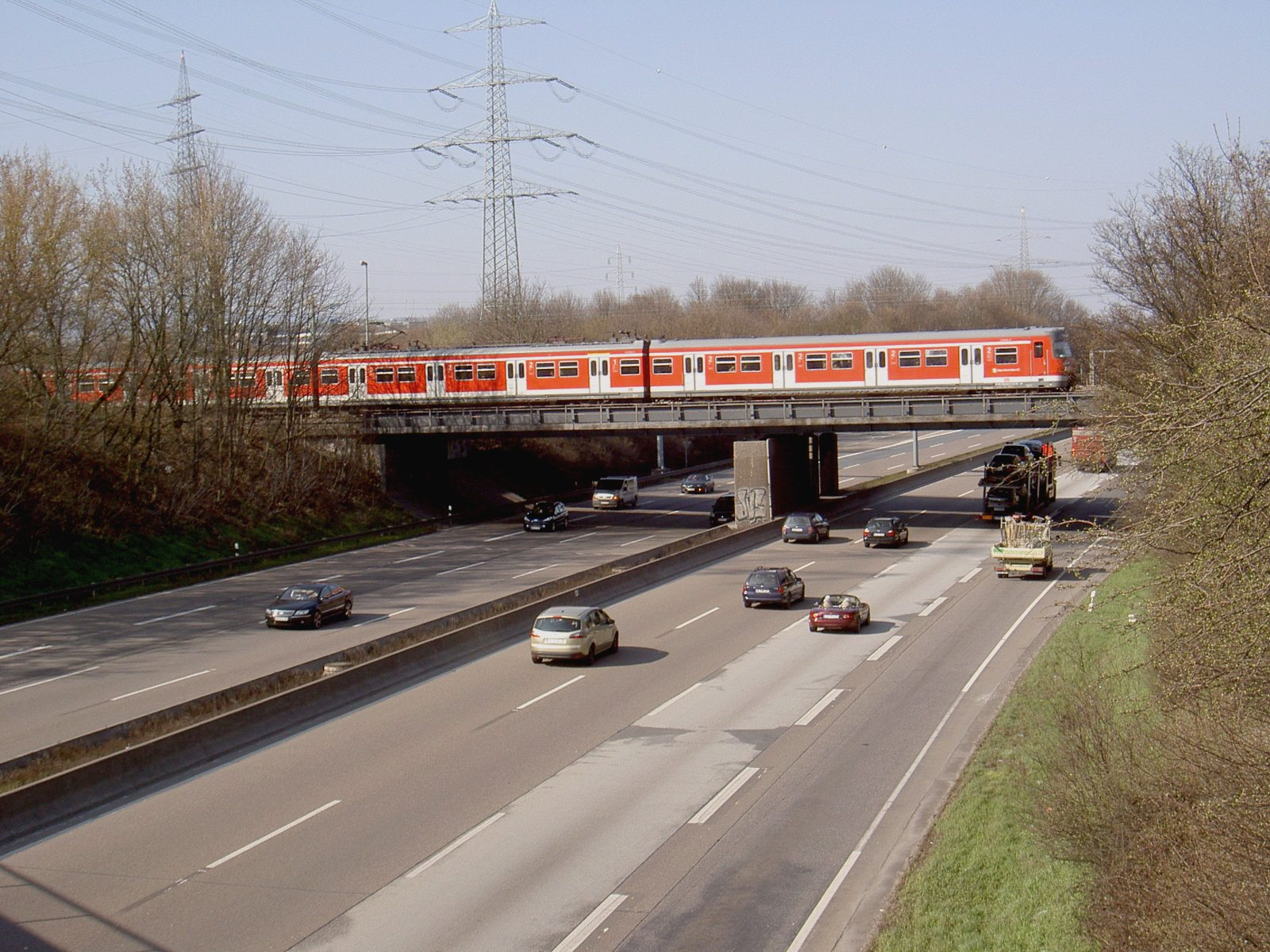 S-Bahn crossing the A5 motorway, Frankfurt am Main